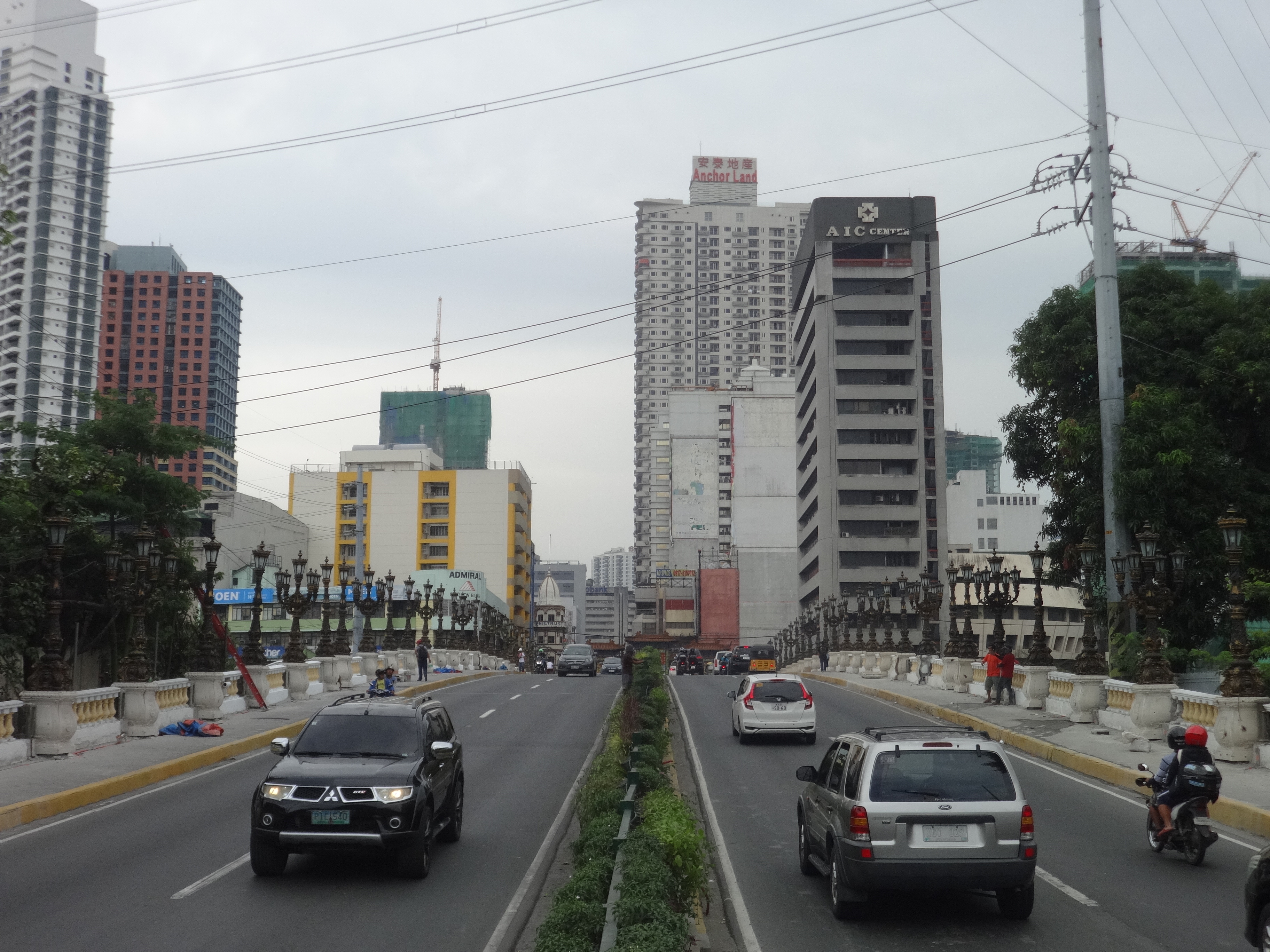 Binondo District in Manila as seen from Jones Bridge